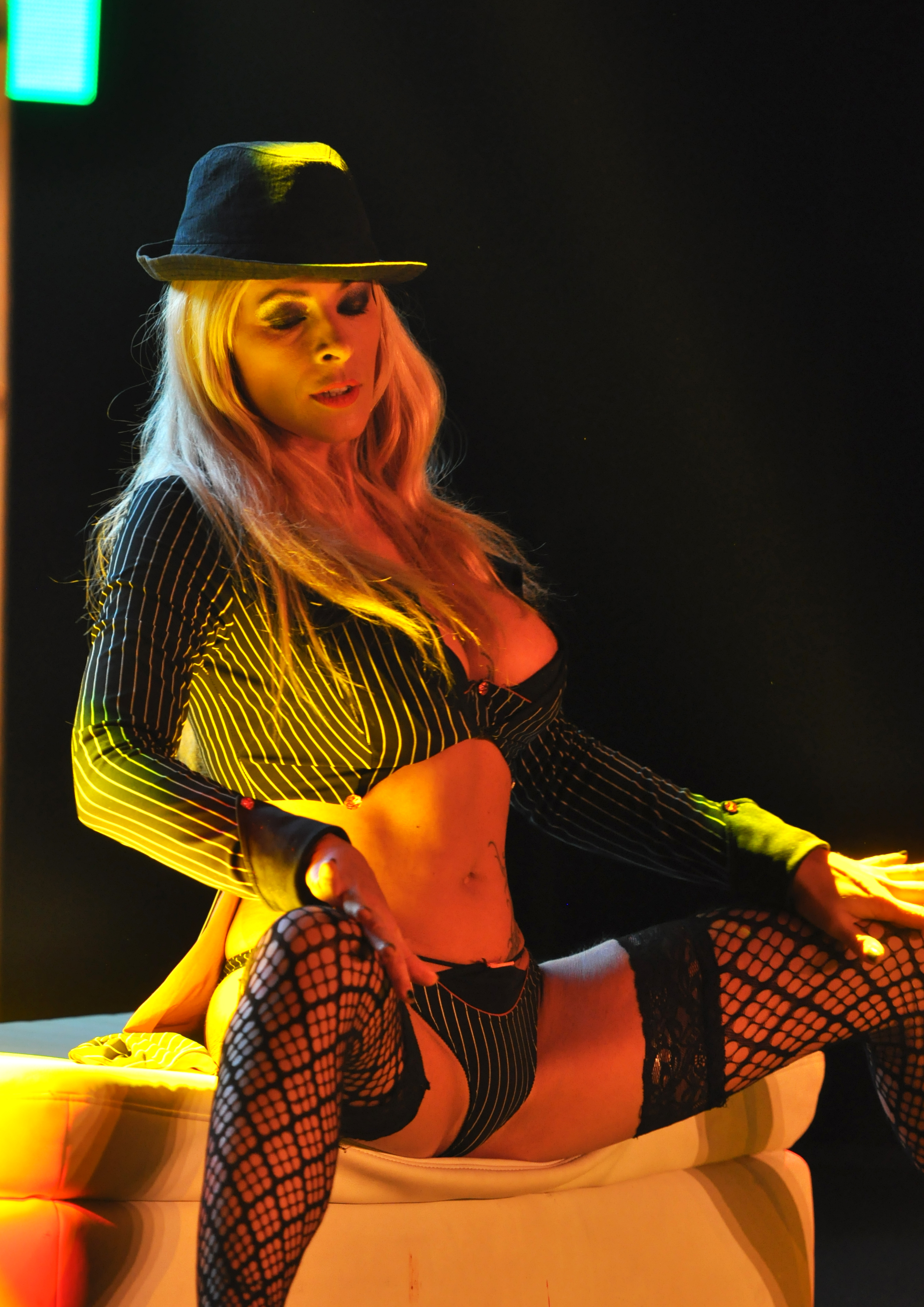 At the Venus 2014, Berlin